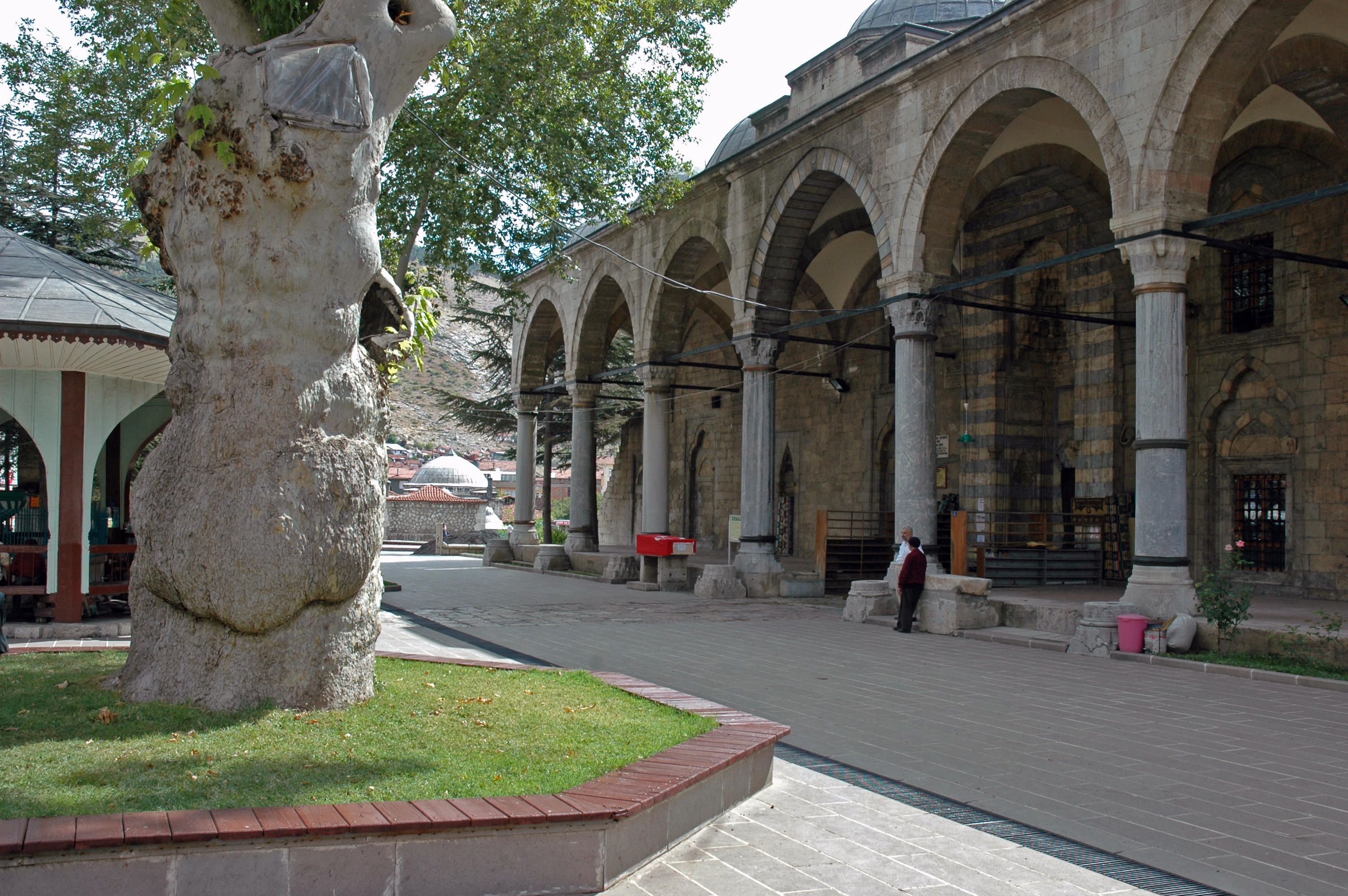 Kemer Ali Paşa had this mosque built in 1572, together with a hamam (public bath) and a türbe (tomb). He was a son-in-law of Şehzade Bayezıt (1525-1561), the third son of sultan Süleyman I (the Magnificent). All three buildings bear Ali Paşa’s name, of course. Ordering his ‘külliye’-complex was one of his last actions, because he died that same year 1572.